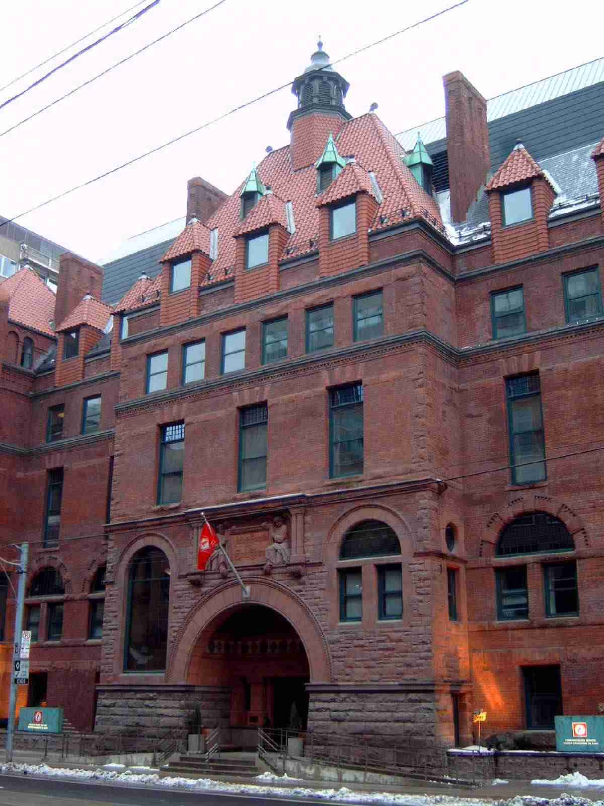 Victoria Hospital for Sick Children (old HSC building), Toronto, in 2005.